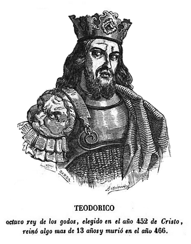 Drawing portrait of Visigoth king, printed into the book with N° 8 TEODORICO II